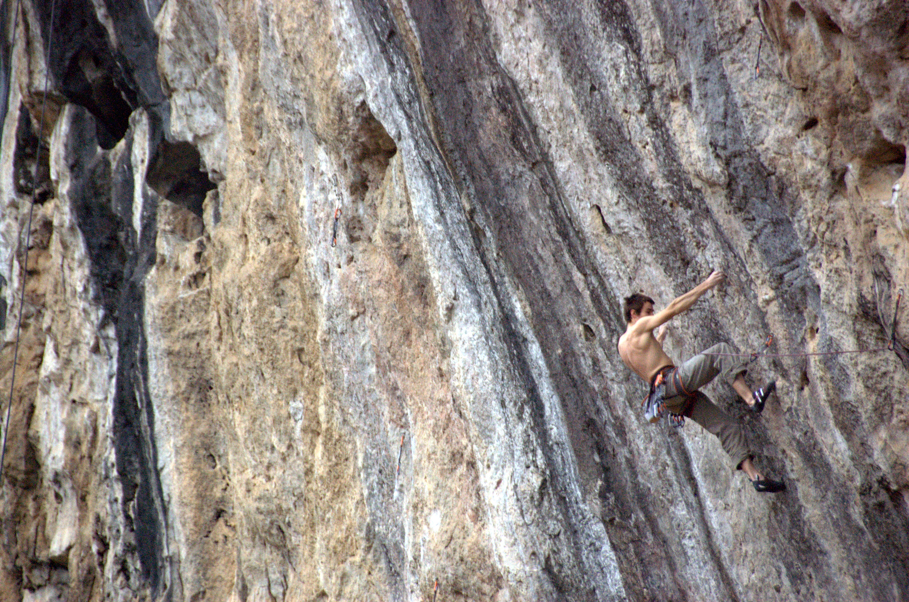 Ethan Pringle climbs Spicy Dumpling, 5.14d @ White Mountain in Yangshuo, China